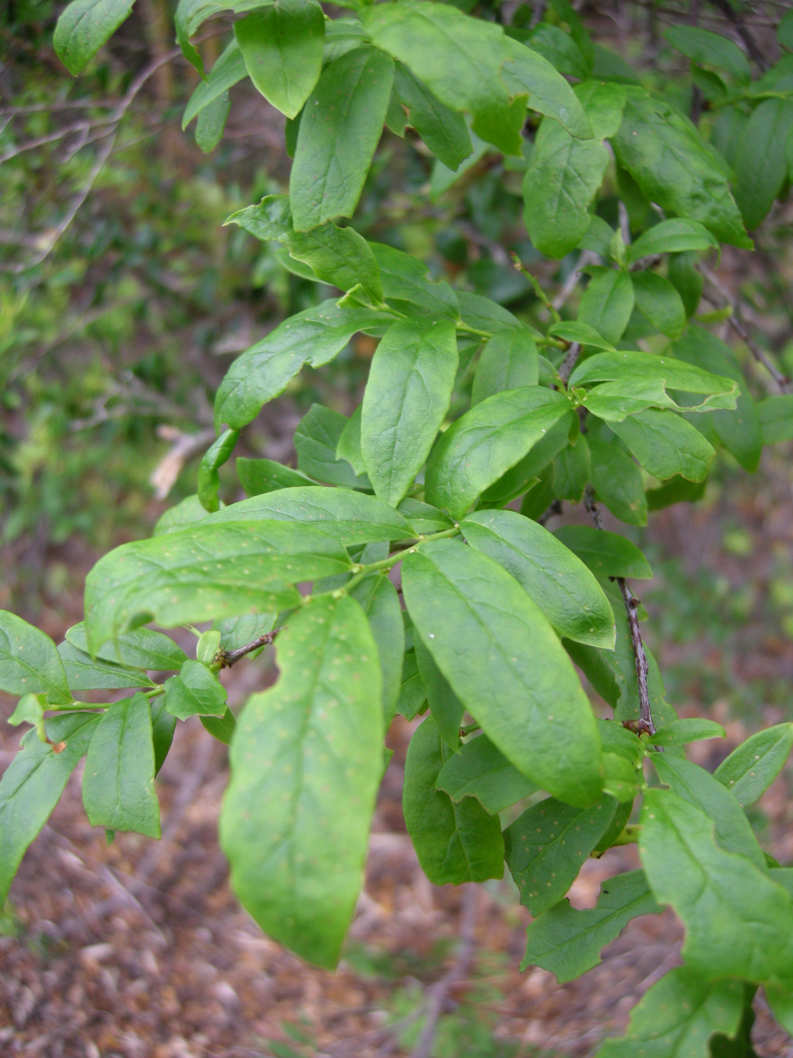 Leaves of Myoschilos oblongum. Picture taken in Los Alerces National Park (Chubut province, Argentina).